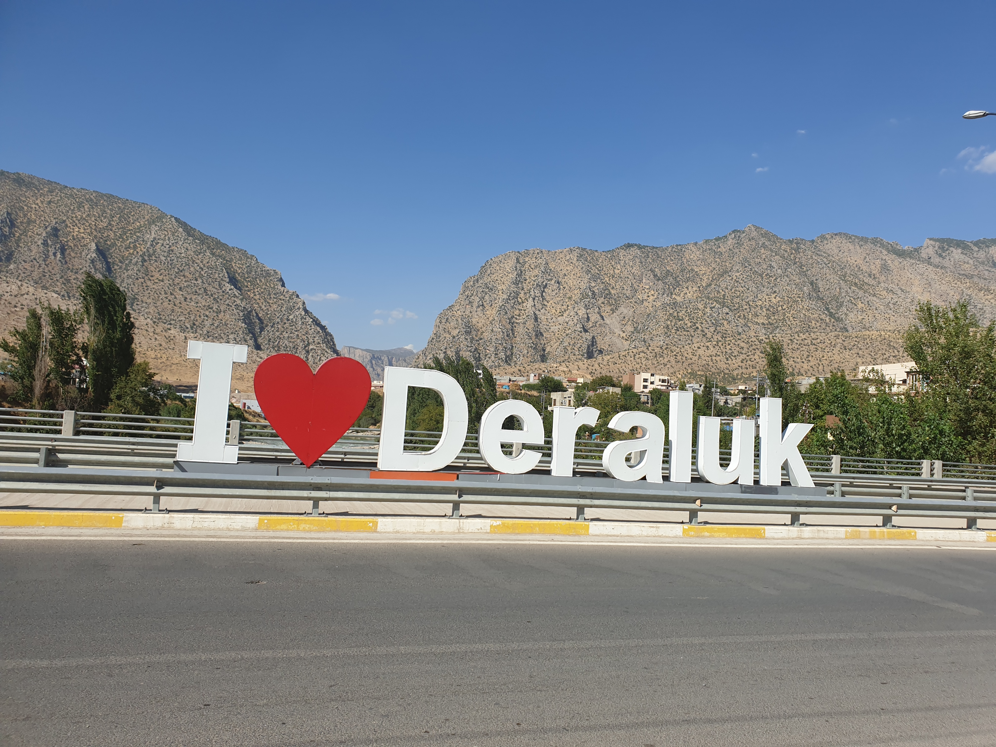 Deraluk city in Dohuk Governorate